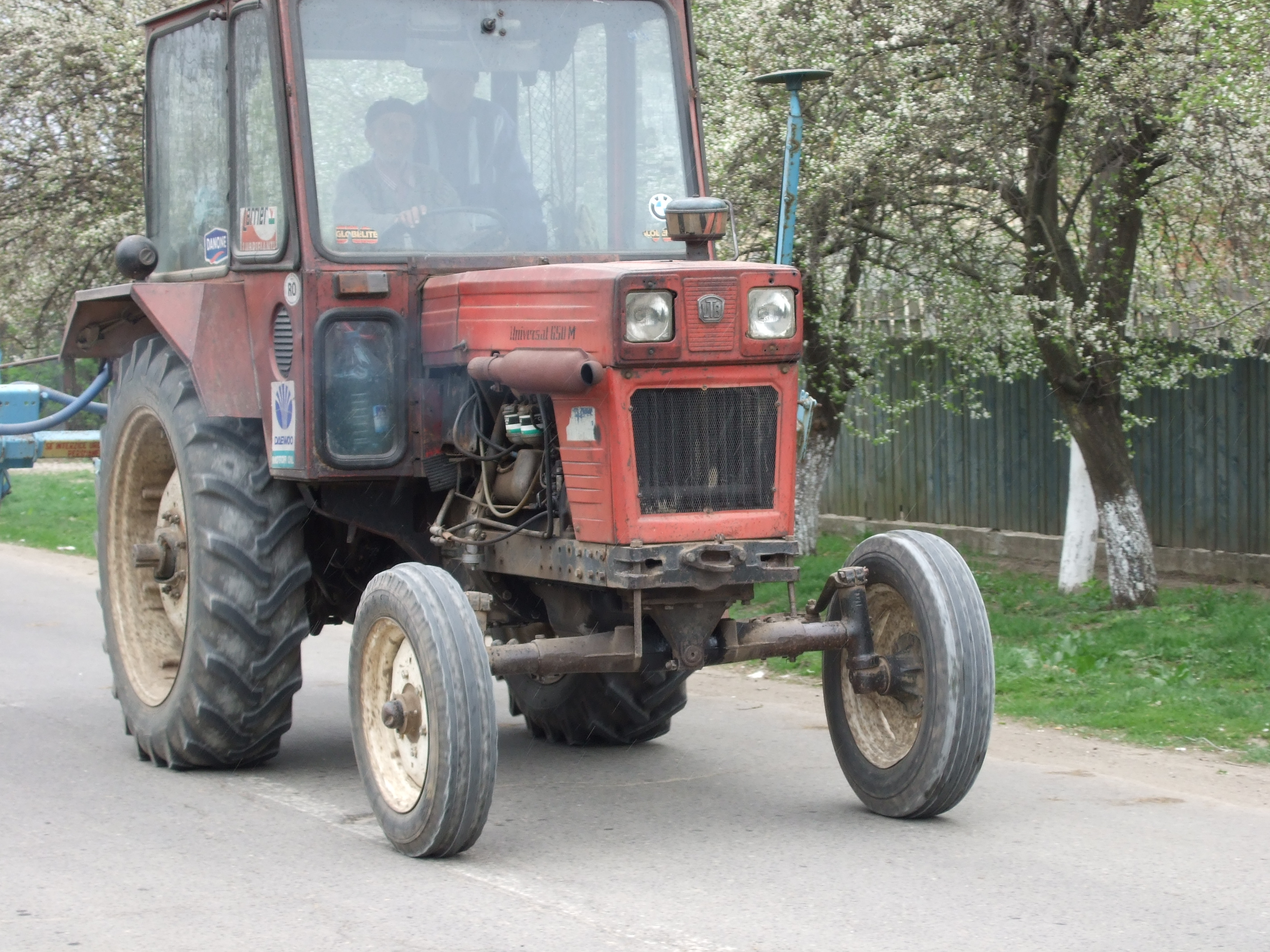 Universal 650